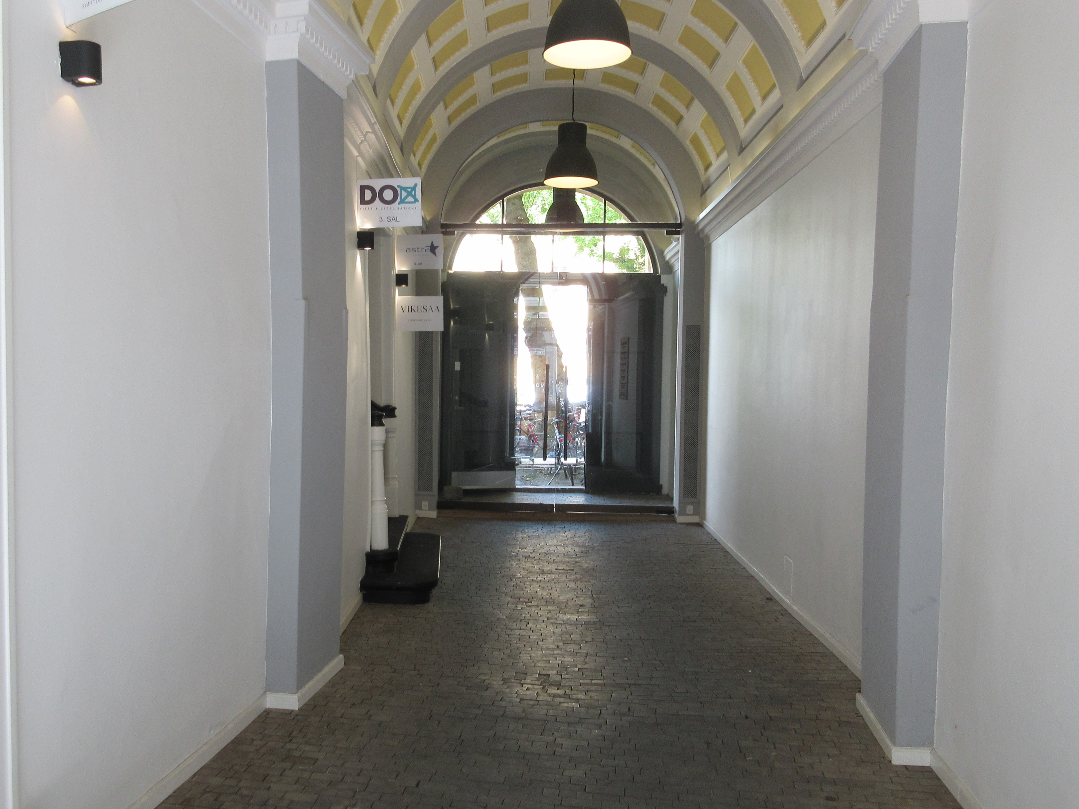 Sværtegade 3 in Copenhagen, Denmark